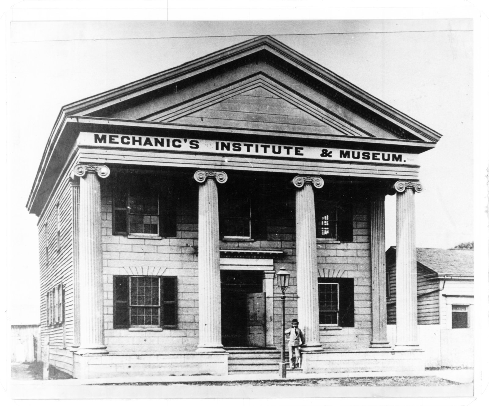 1835 The London Mechanics' Institute in London, Ontario Canada, forerunner of today's Public Library, is known to have existed as early as this date. It was the third established in Upper Canada, after Toronto and Kingston. A self-improvement centre for "the working classes," it offered lectures, concerts, exhibitions and a lending library. Its earliest official records go back to 1841. 1843 A new London Mechanics' Institute and Museum was built on the original courthouse square, near the present-day corner of Dundas and Ridout Streets. In 1855, it was moved to Talbot Street at the western end of Queens Avenue. By 1870, its library numbered 1,100 volumes." The building shown in this photograph is probably at the Talbot Street location. In 1877 the Mechanics' Institute opened in a new building at 231 Dundas Street, its final destination. After the Free Public Libraries Act of 1892 the city opened its first London Public Library in 1895 at the corner of Wellington and Queens Avenue. It included the book collection from the Mechanics' Institute. Some of this collection still exists in the London Room at the newest location of the Central branch of London Public Library at 251 Dundas Street, coincidentally beside the building that last housed its predecessor, the London Mechanics' Institute.